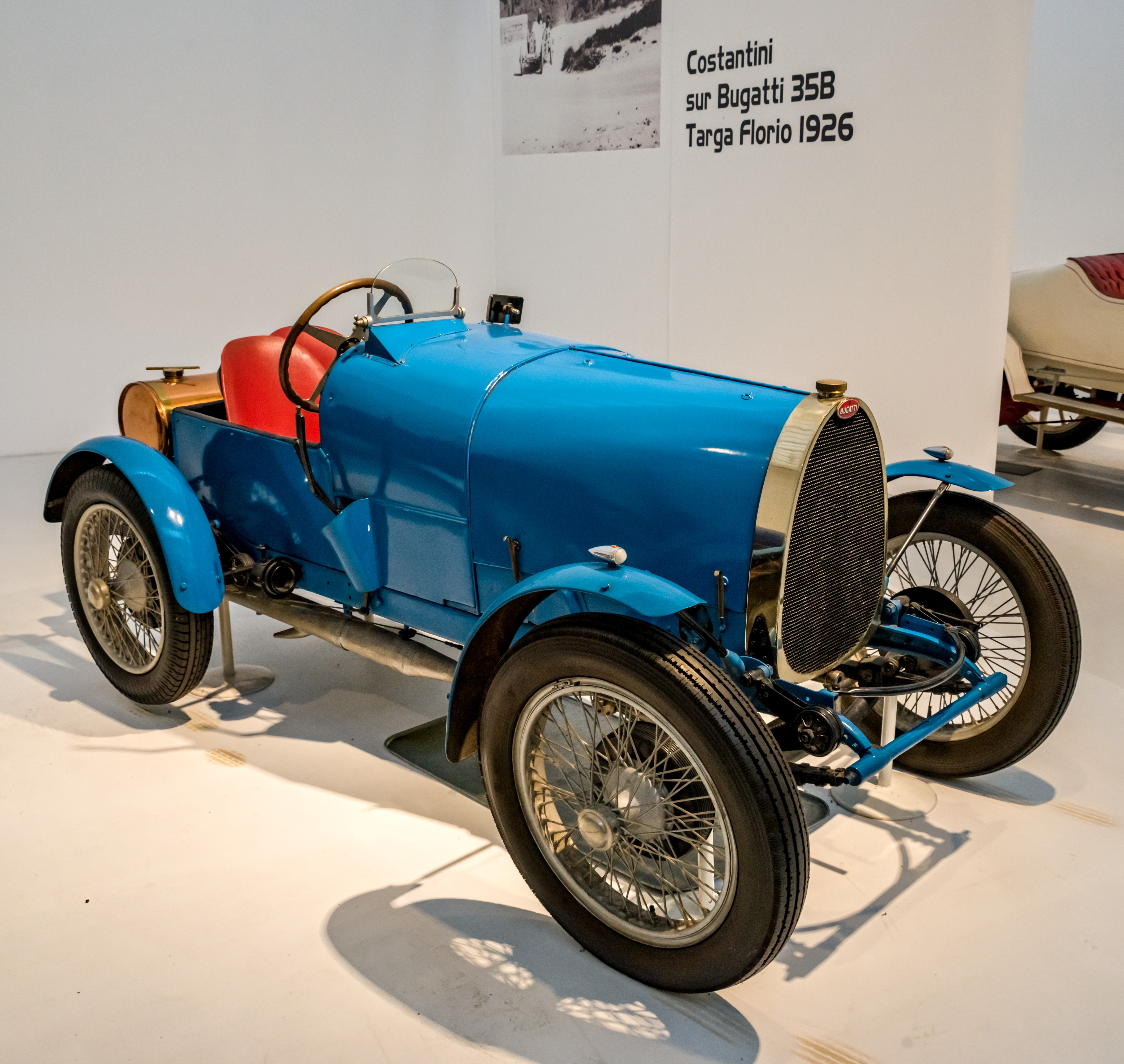 pictures from the Cité de l’Automobile – Musée National – Collection Schlump in Mulhouse, France ptictures from the 10. may 2018